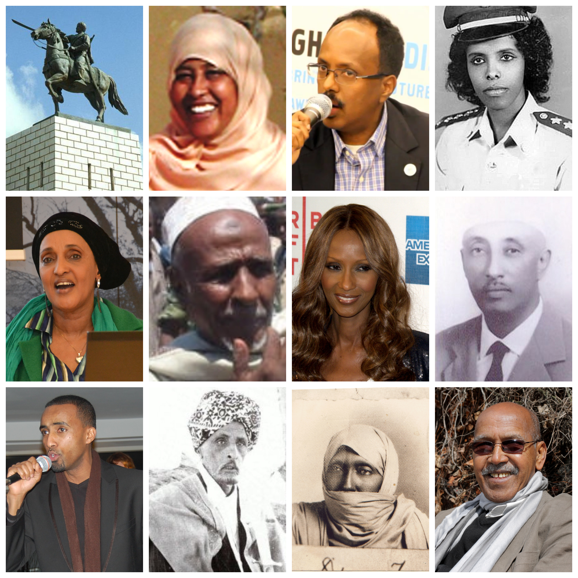 Collage of prominent Somalis.